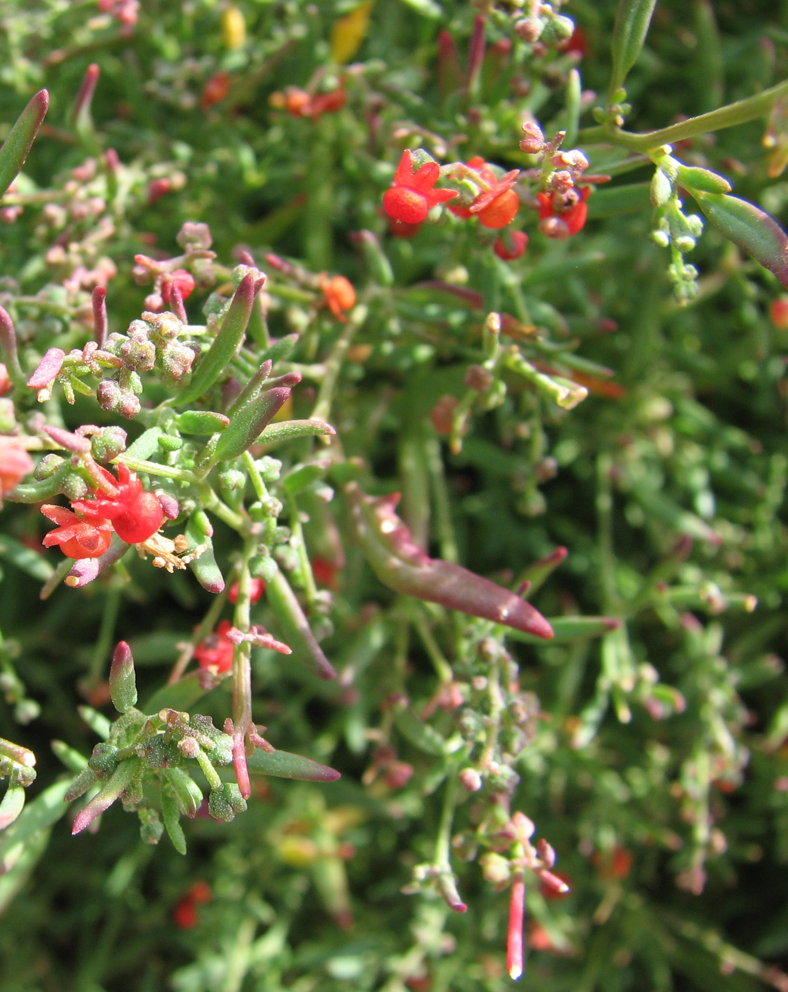 Chenopodium nutans (cultivated, labelled as Einadia nutans) Royal Botanic Gardens, Cranbourne, Victoria, Australia